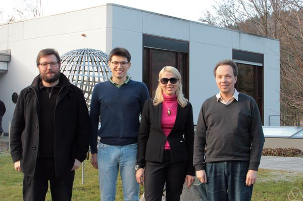 Description at MFO: On the Photo: * Schenkel, Alexander (first from the left) * Benini, Marco (second from the left) * Rejzner, Kasia (second from the right) * Schweigert, Christoph (first from the right) * Occasion:Mini-Workshop: New Interactions between Homotopical Algebra and Quantum Field Theory * Annotation: Organizers * Location: Oberwolfach * Author: Ruf, Tatjana (photos provided by Ruf, Tatjana) * Source: MFO * Year: 2016 * Copyright: MFO * Photo ID: 21430